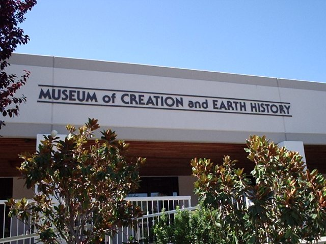 Taken by User:Mycota October 2003